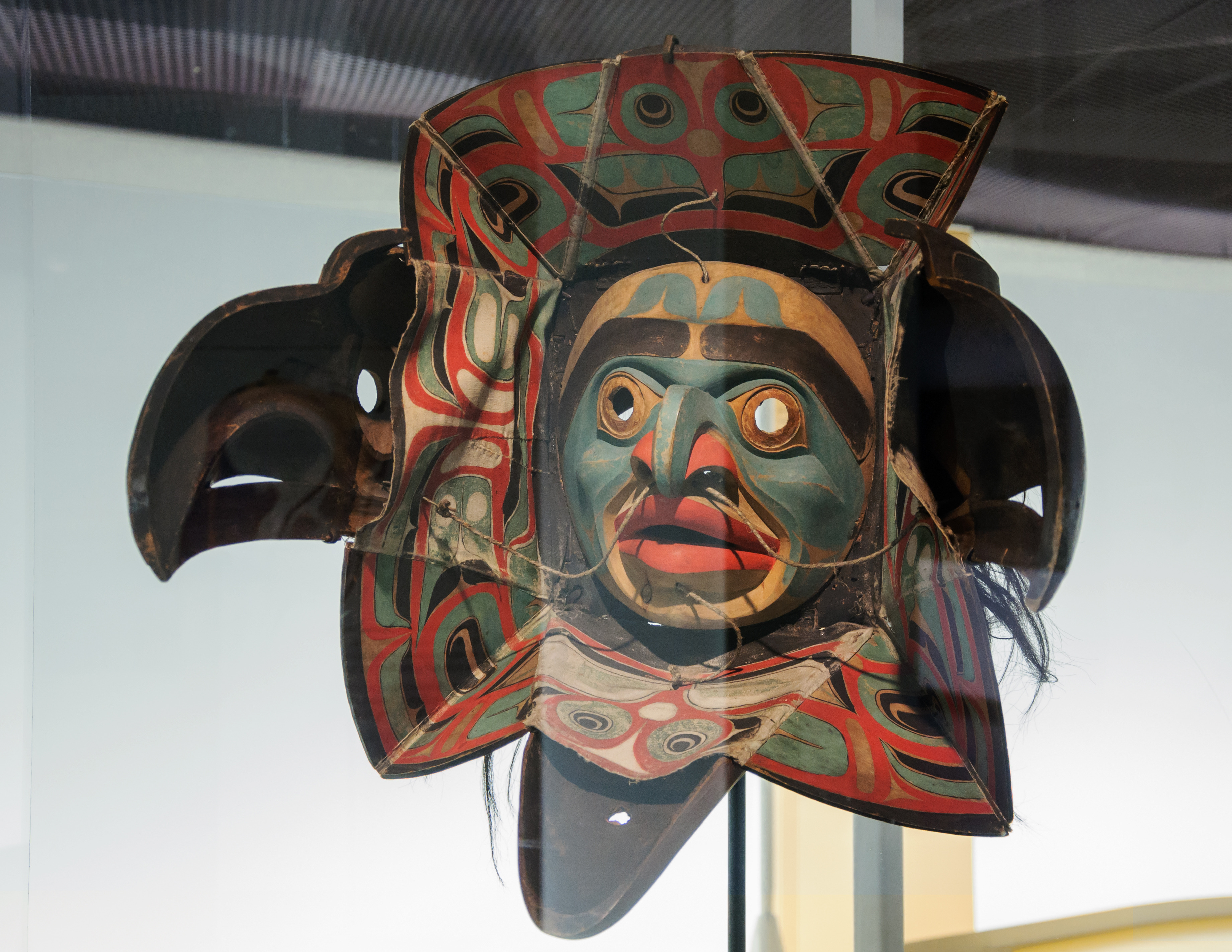 Nuxalk transformation mask, British Columbia, Canada, 19th century.Linden Museum, Stuttgart, Germany, inv. 019178.Presented during the exhibition La Fabrique des images (The Making of images) - Musée du quai Branly, Paris (February 16, 2010 - July 17, 2011)